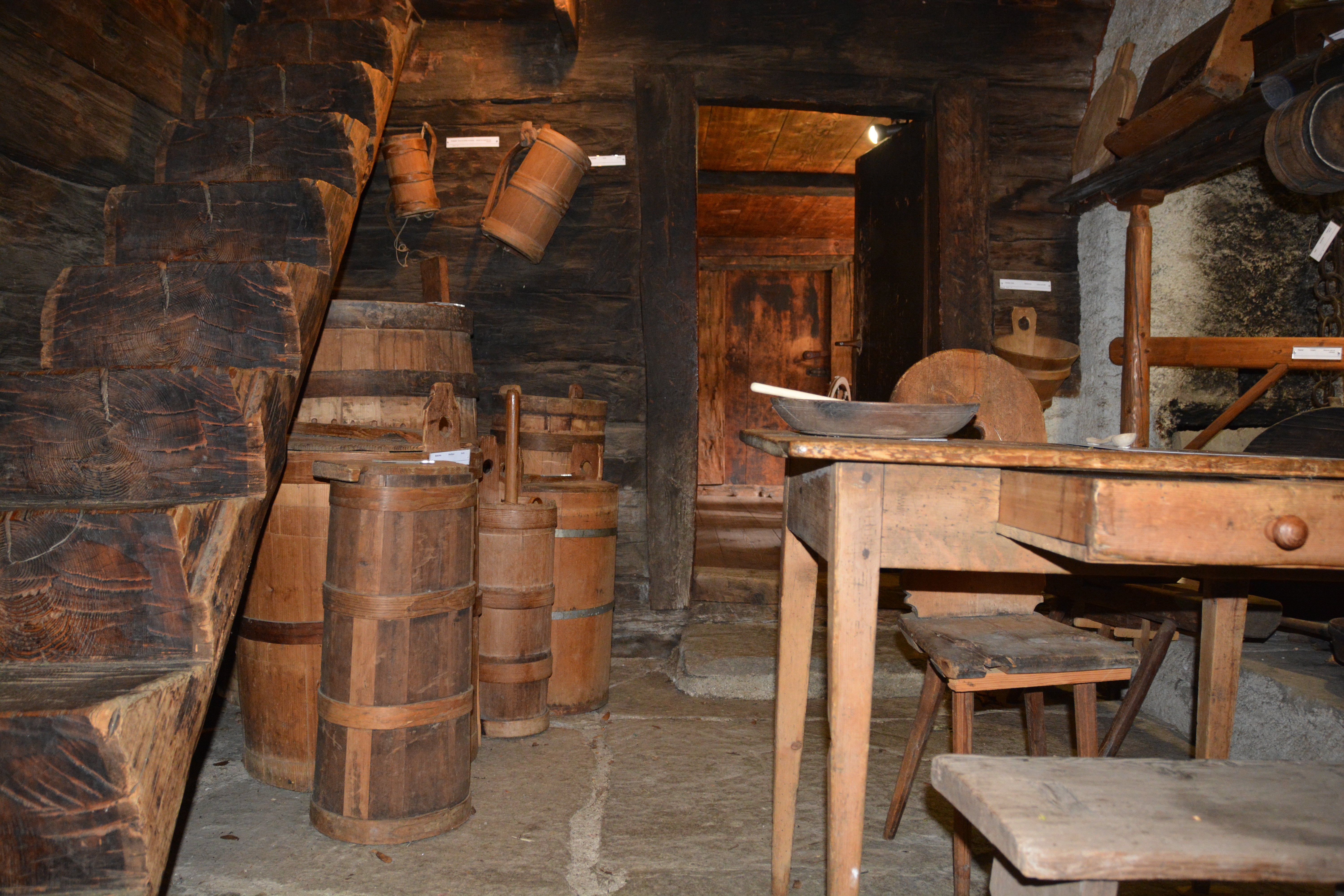 Walserhaus_Interior_Kitchen